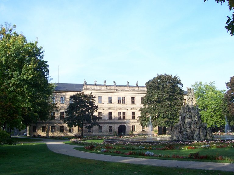 The castle of Erlangen. It houses parts of the University of Erlangen Nuremberg administration.